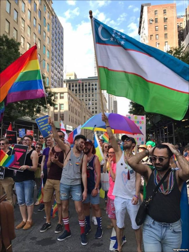 This is a picture of 2017 NYC Pride Parade March. Uzbekistan's flag is being held by this young man who is proud to be part of UZBEK and LGBTQIA++ community. It is beautiful to see people who are representing Uzbekistan and that Queer people also exist in Uzbekistan. We are Queer and Uzbek!